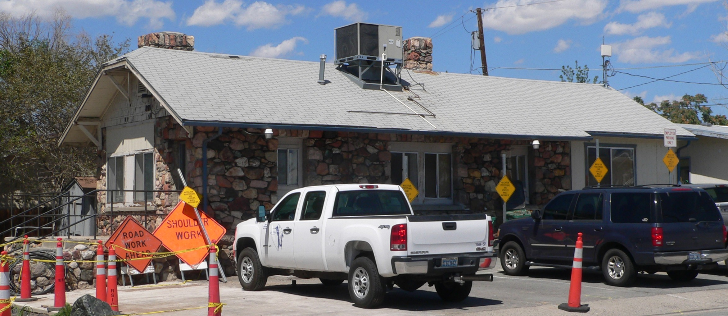 Field Matron's cottage, located at 1995 E. 2nd Street in Reno, Nevada; seen from the southeast.